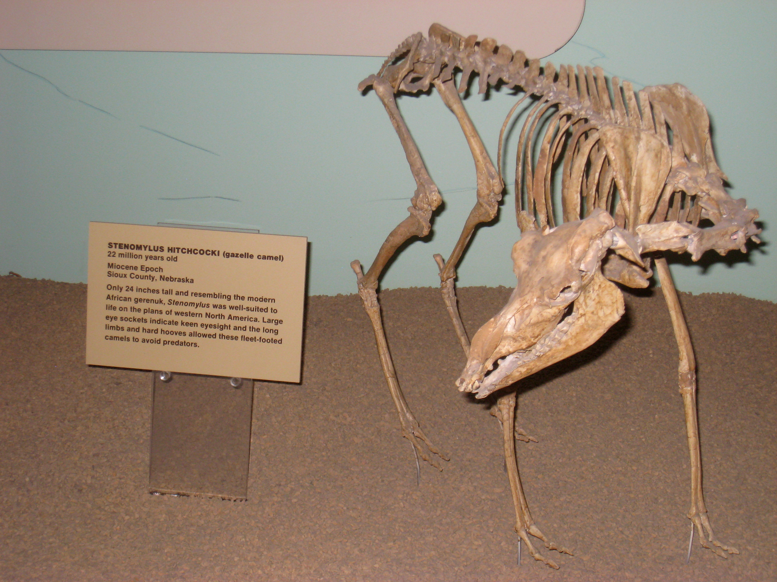 Stenomylus hitchcocki fossil in the Utah Museum of Natural History, Salt Lake City, Utah, USA.